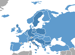 Shows teams of en:1974 FIFA World Cup qualification/Europe on a world map